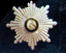 Part of the main image posted in Commons